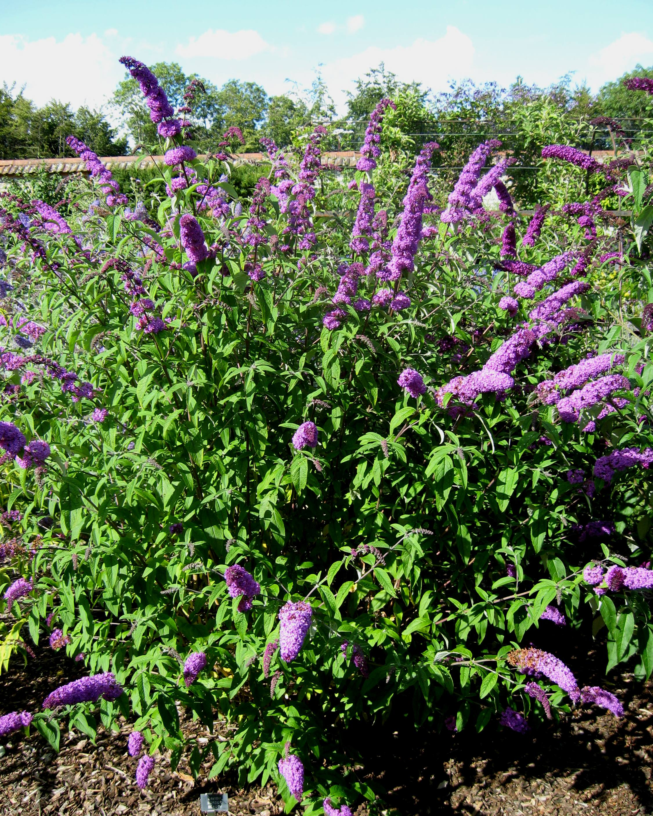 Photo of Buddleja cultivar 'Border Beauty' taken at Longstock Park, UK, August 2012